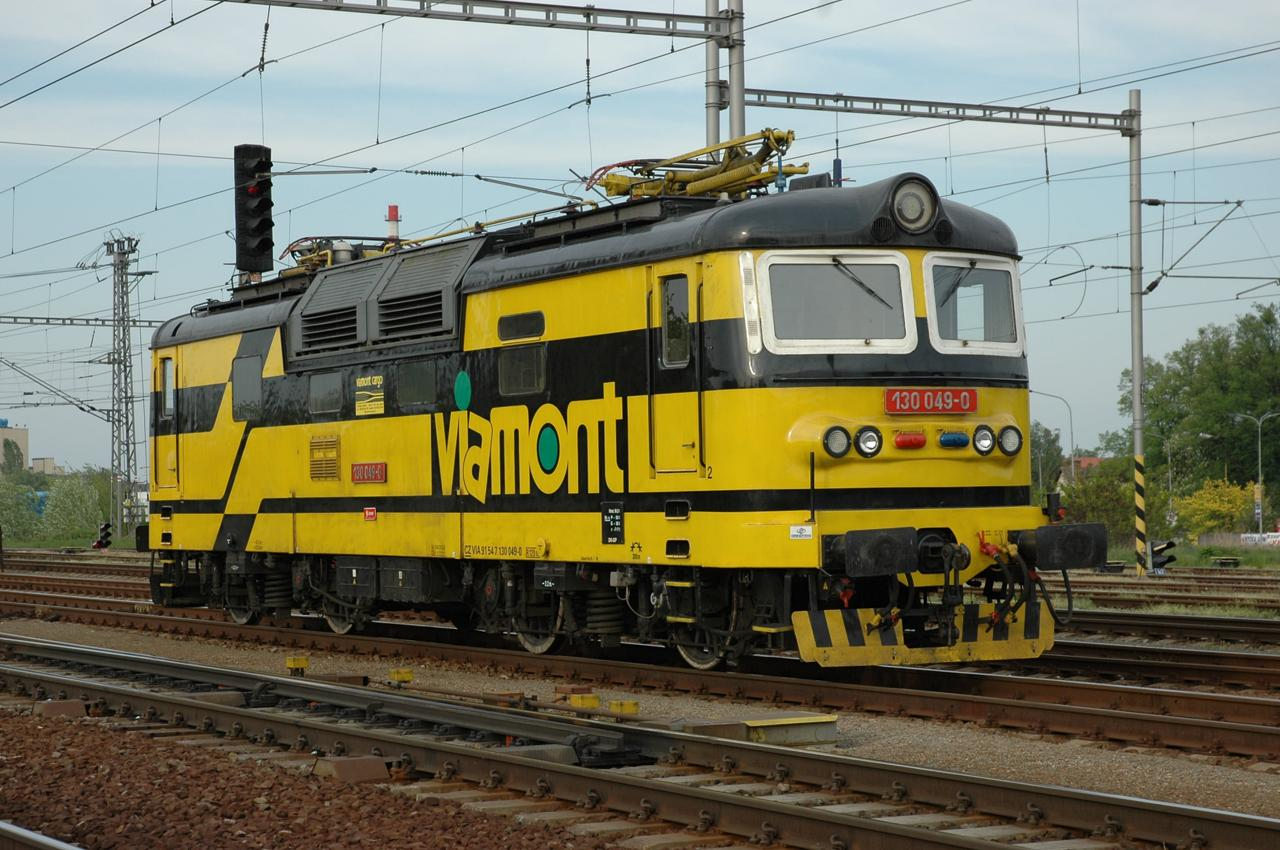 Locomotive 130.049 of Viamont Cargo railway operator, station Staré Město u Uherského Hradiště, Czech Republic